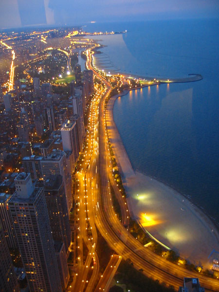 Looking north from the Hancock observation deck in Chicago.